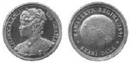 1891 dollar coin of Queen Liliuokalani of Hawaii.